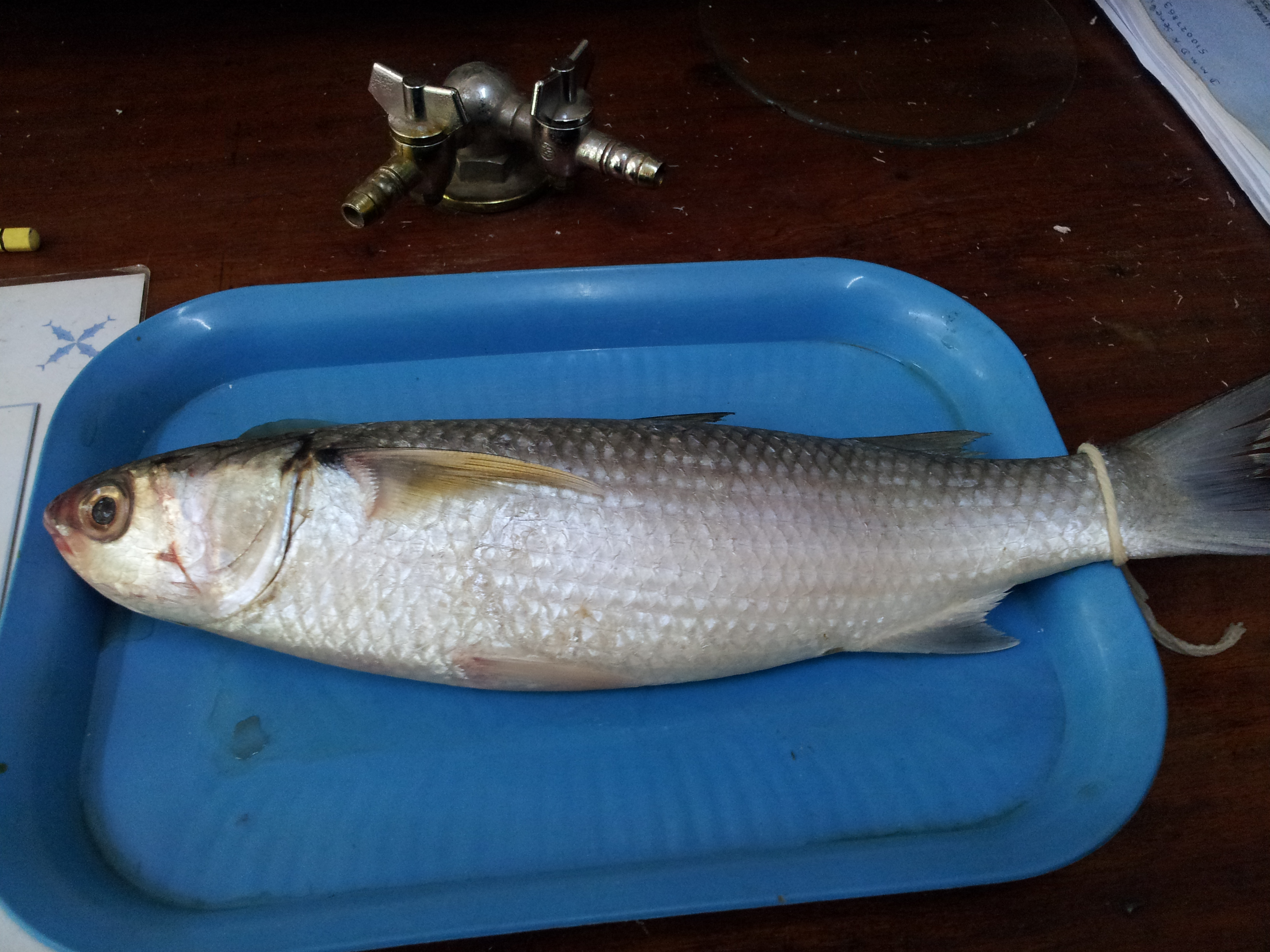 A preserved mullet